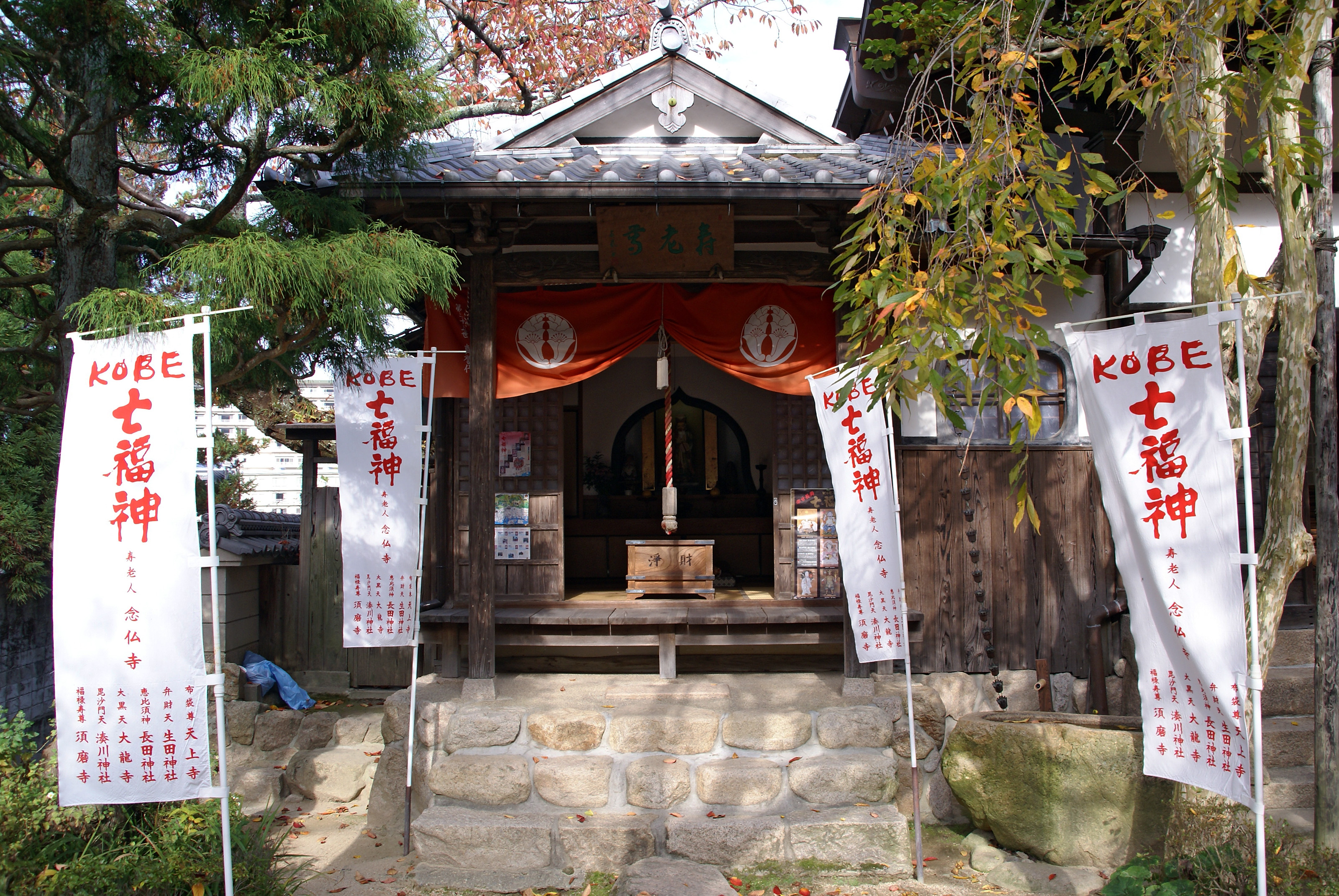 Nenbutsuji of Arima onsen in Kobe, Hyogo prefecture, Japan